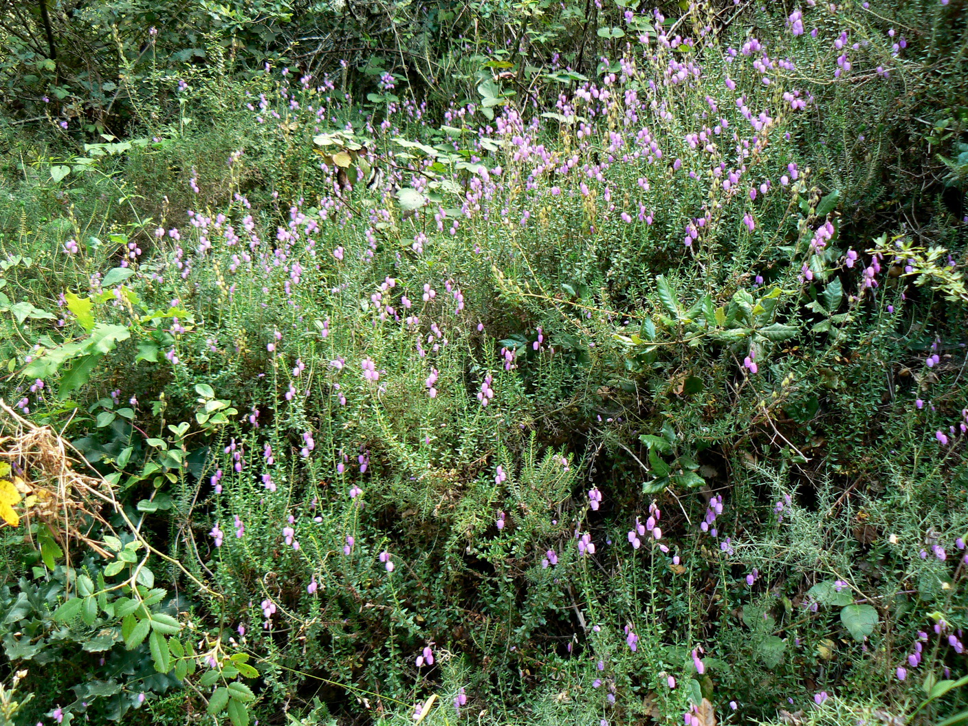 Daboecia cantabrica, Picos De Europa, Spain